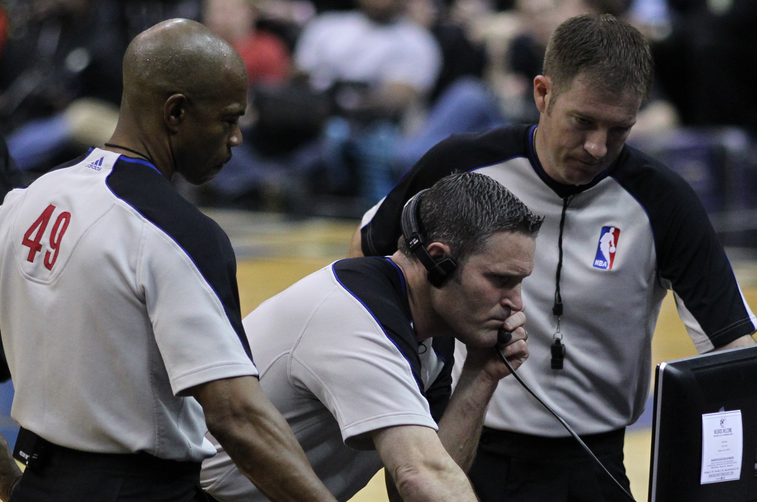 Wizards v/s Heat 03/30/11